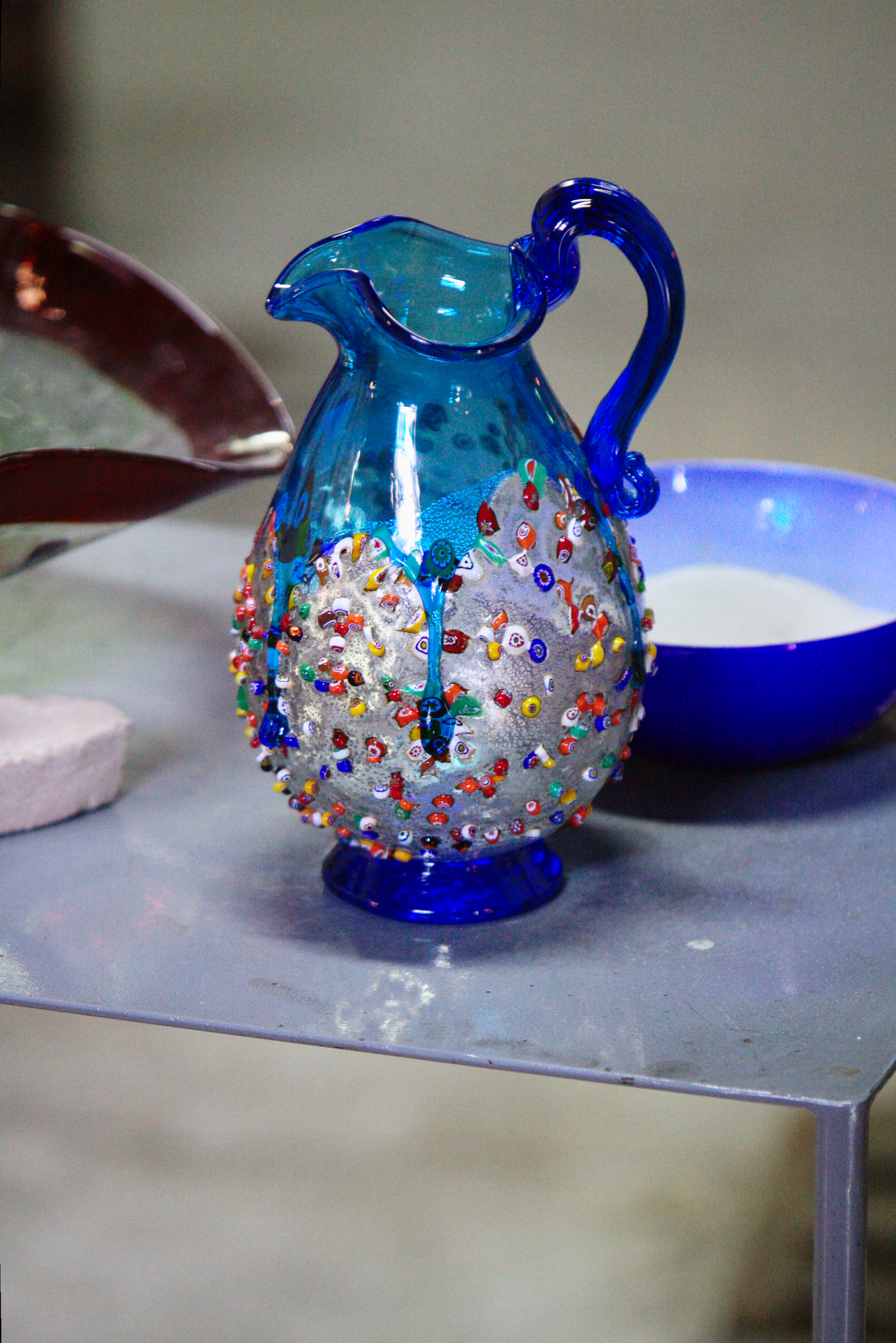 Vetreria Murano Arte glass